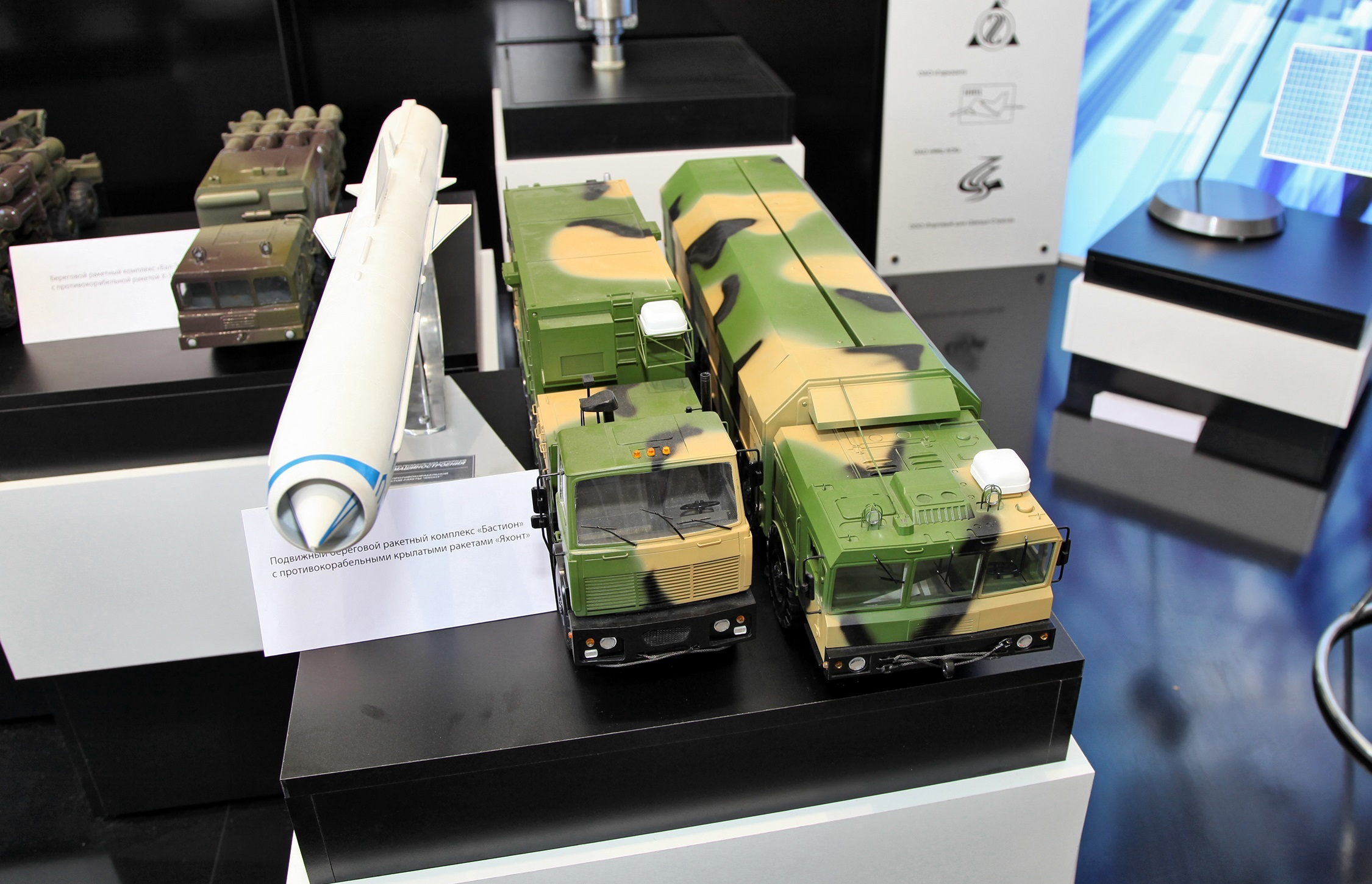 Bastion mobile coastal defence missile system with P-800 Yakhont missile